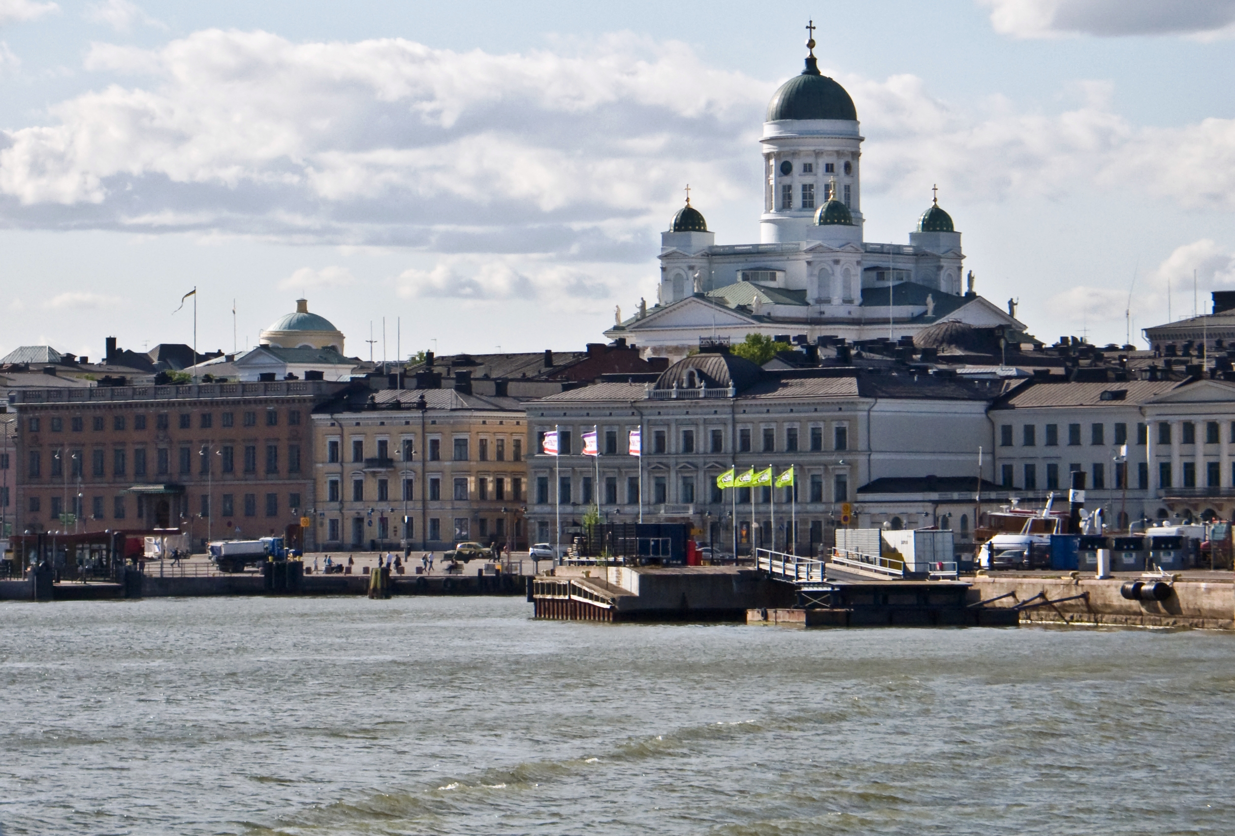 A view of Helsinki from the sea. The market place (Kauppatori) in the foreground. Behind the market place, the are Embassy of Sweden on the left and the Presidential Palace (partly outside of the picture) on the right. Helsinki Cathedral can be seen above the other buildings.